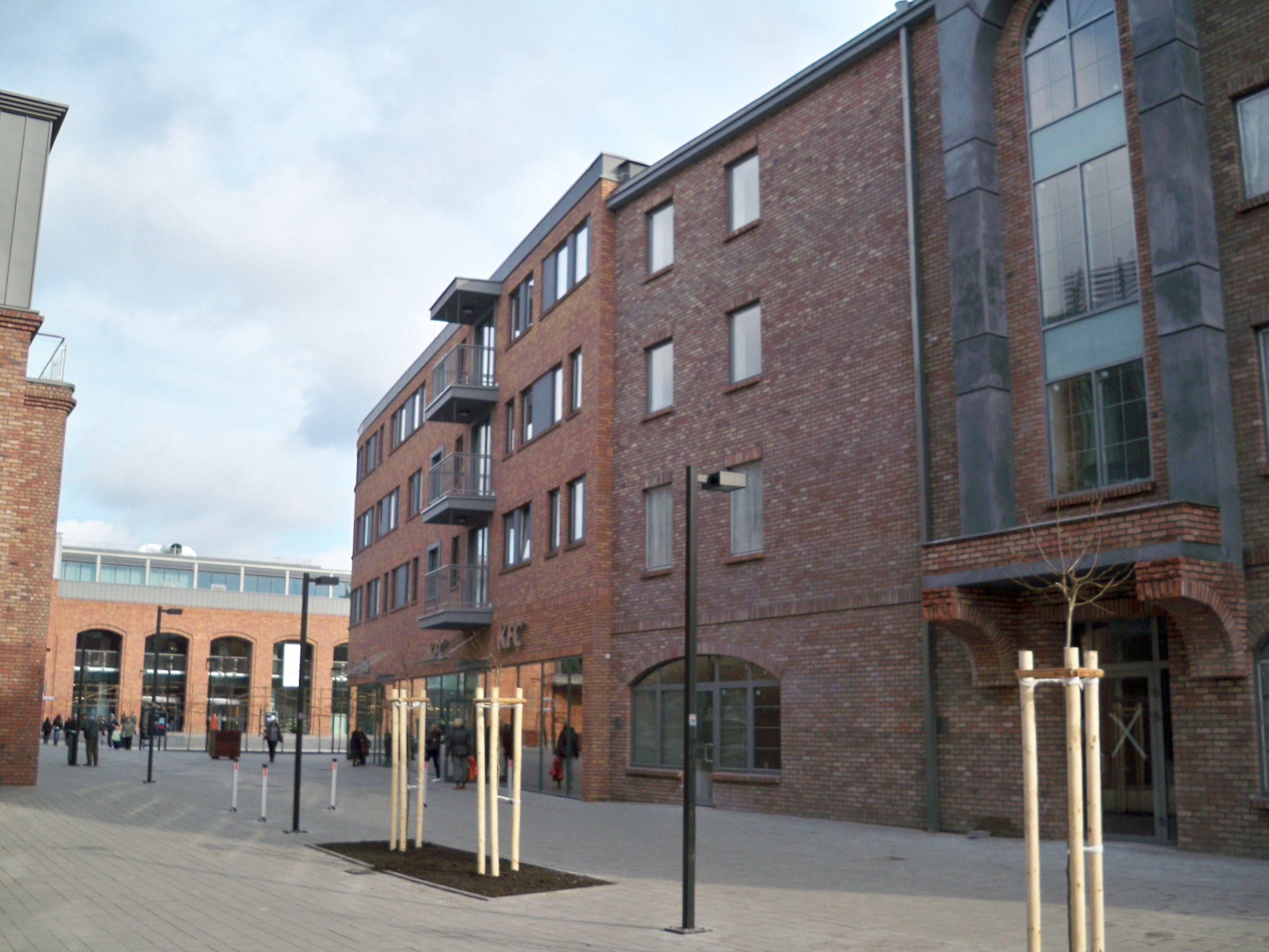 Wzorcownia Włocławek 2009 r.